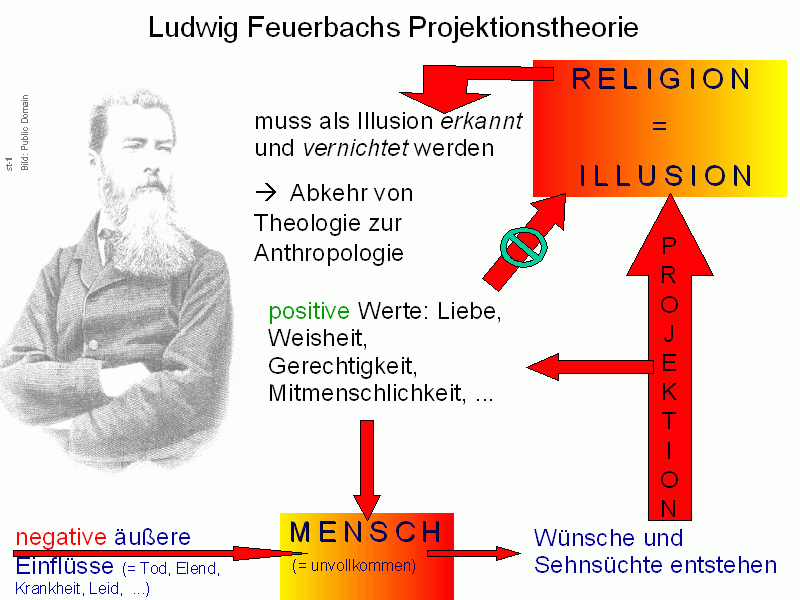 Diagram: Ludwig Feuerbach’s Projection Theory check usage